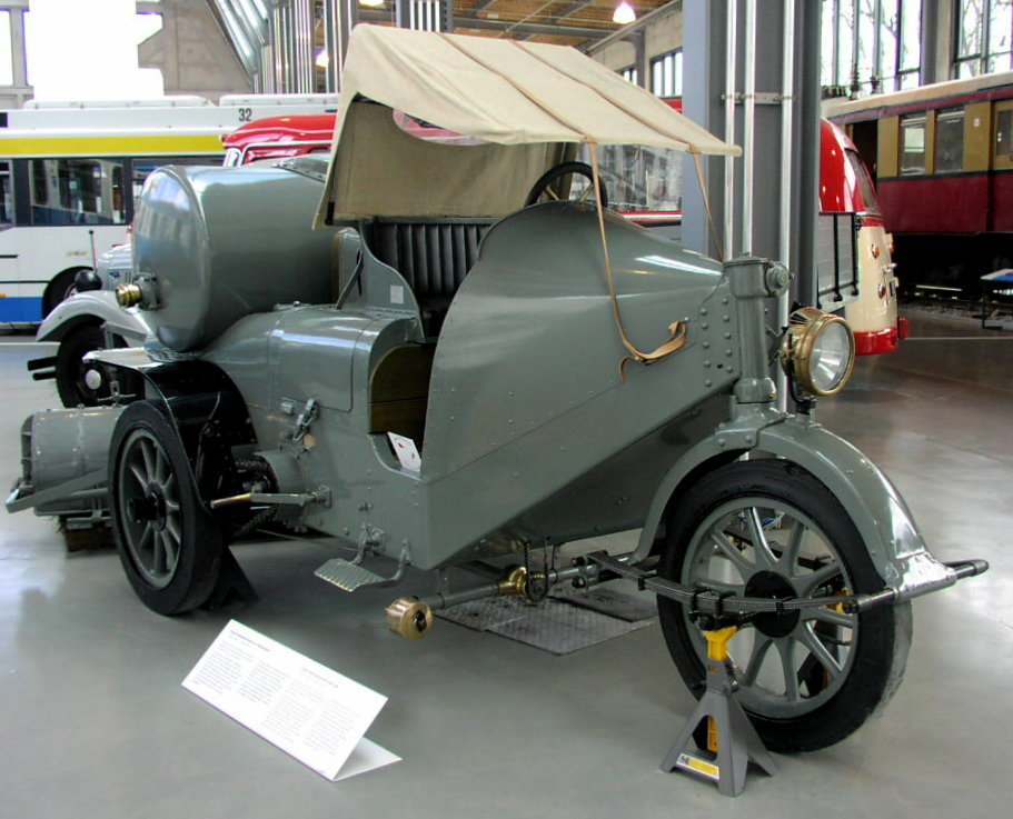 Krupp Street Brushing Machine, Essen (1924)